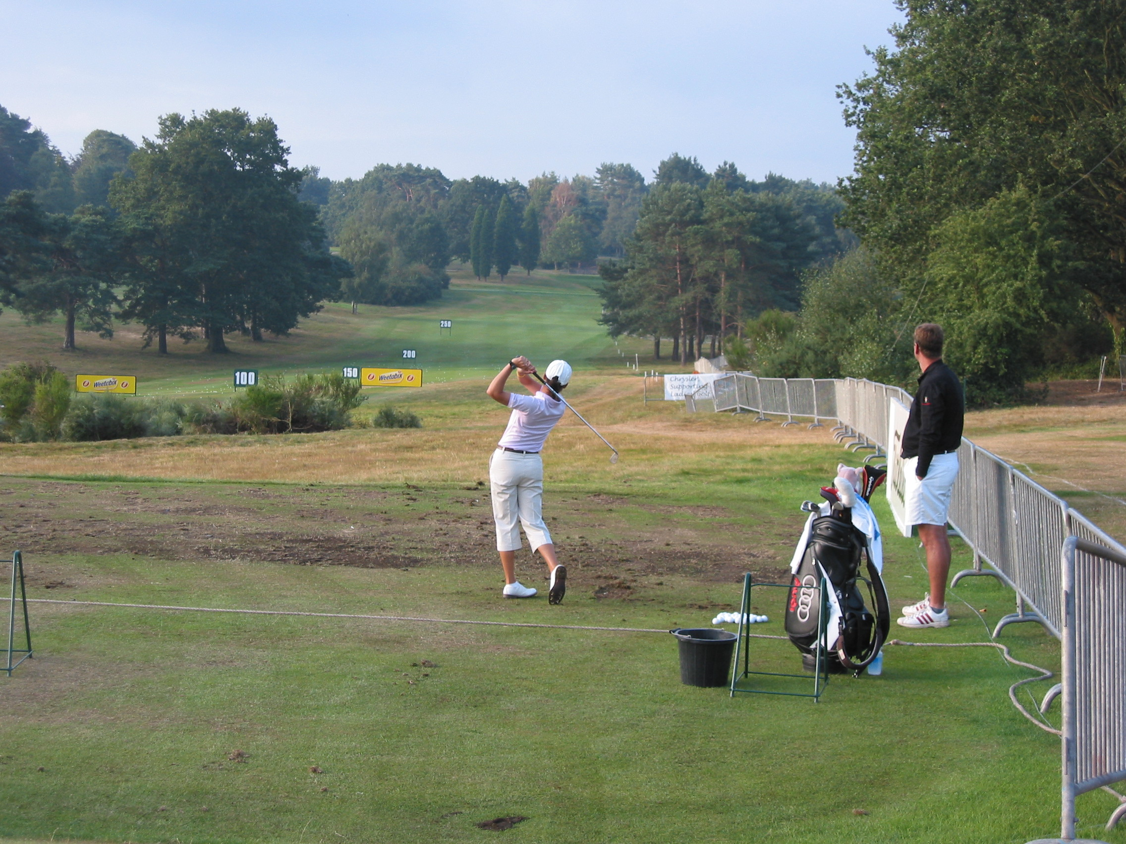 Lorena Ochoa on the practice range during the Women's British Open 2004 Pro-Am at Sunningdale Golf Club